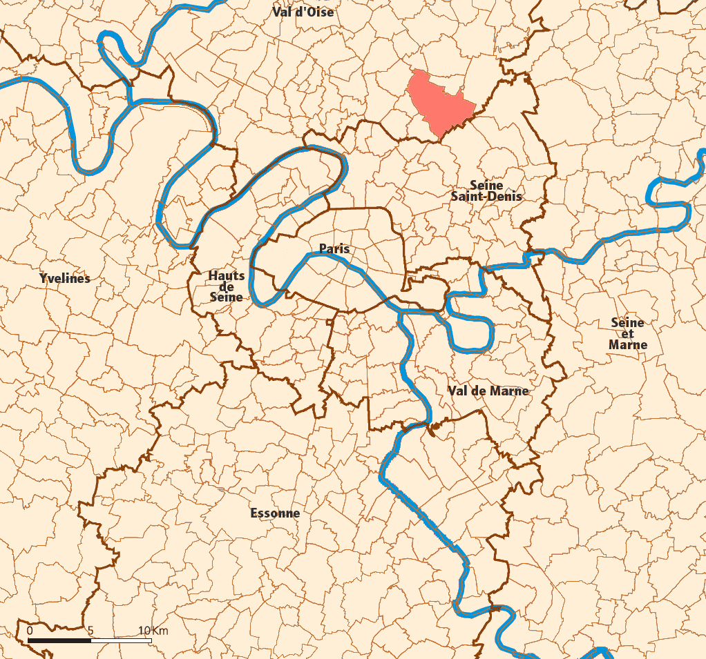 Created map myself.